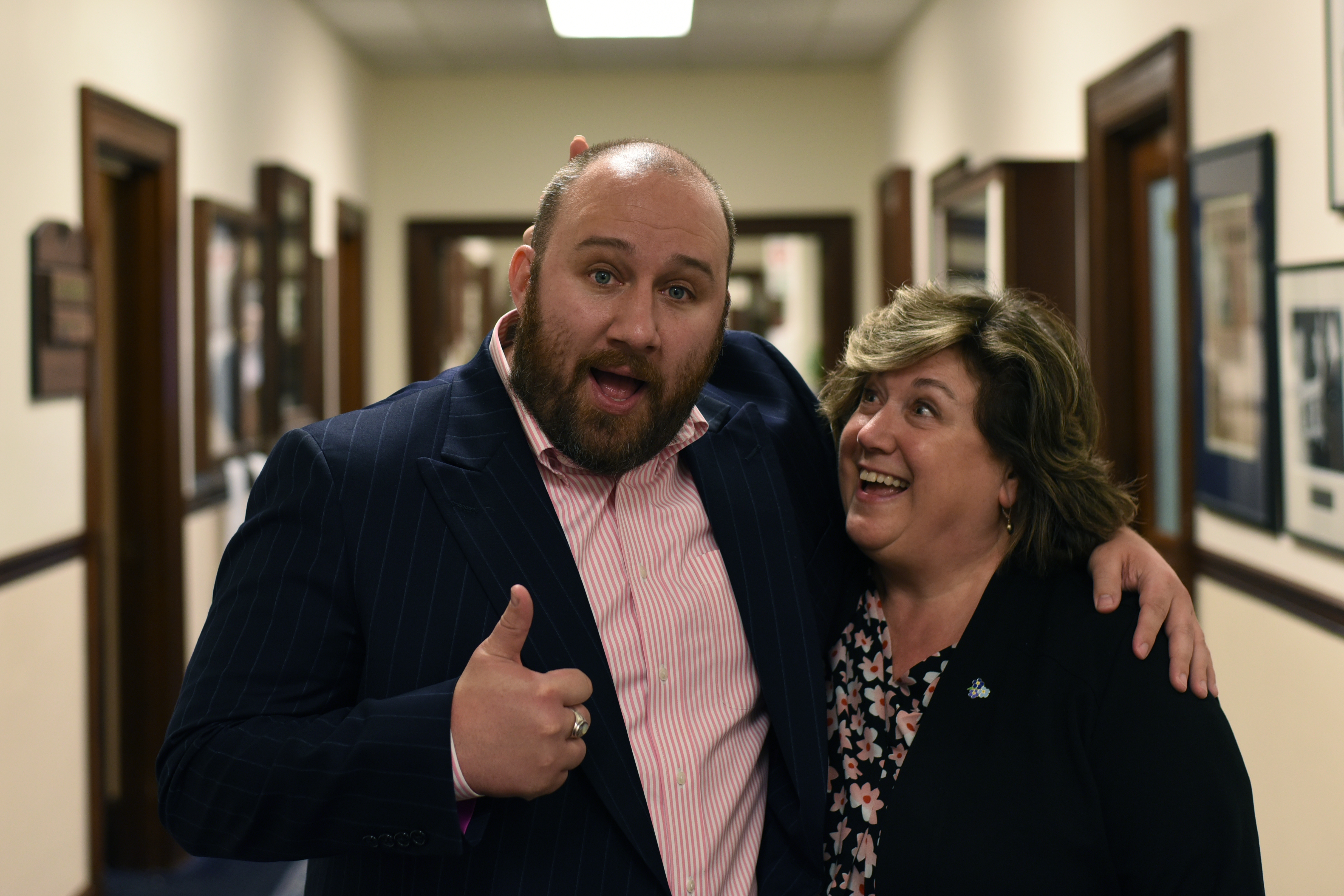 This photo is provided under a Creative Commons Attribution license. Please provide the following credit: "Photo used under Creative Commons license courtesy Paxson Woelber, The Alaska Landmine"